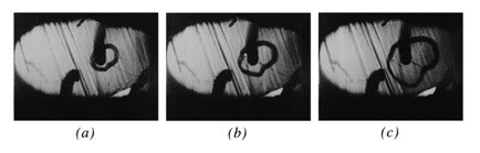 Fig. 8 8: Ring of a high-field domain, made visible using the Franz-Keldysh effect, circling the cathode and expanding in time 3 sec between (a), (b), and (c). Reference: K. W. Böer, H. J. Hänsch and U Kümmel, Z. für Physik 155, 170 (1959)